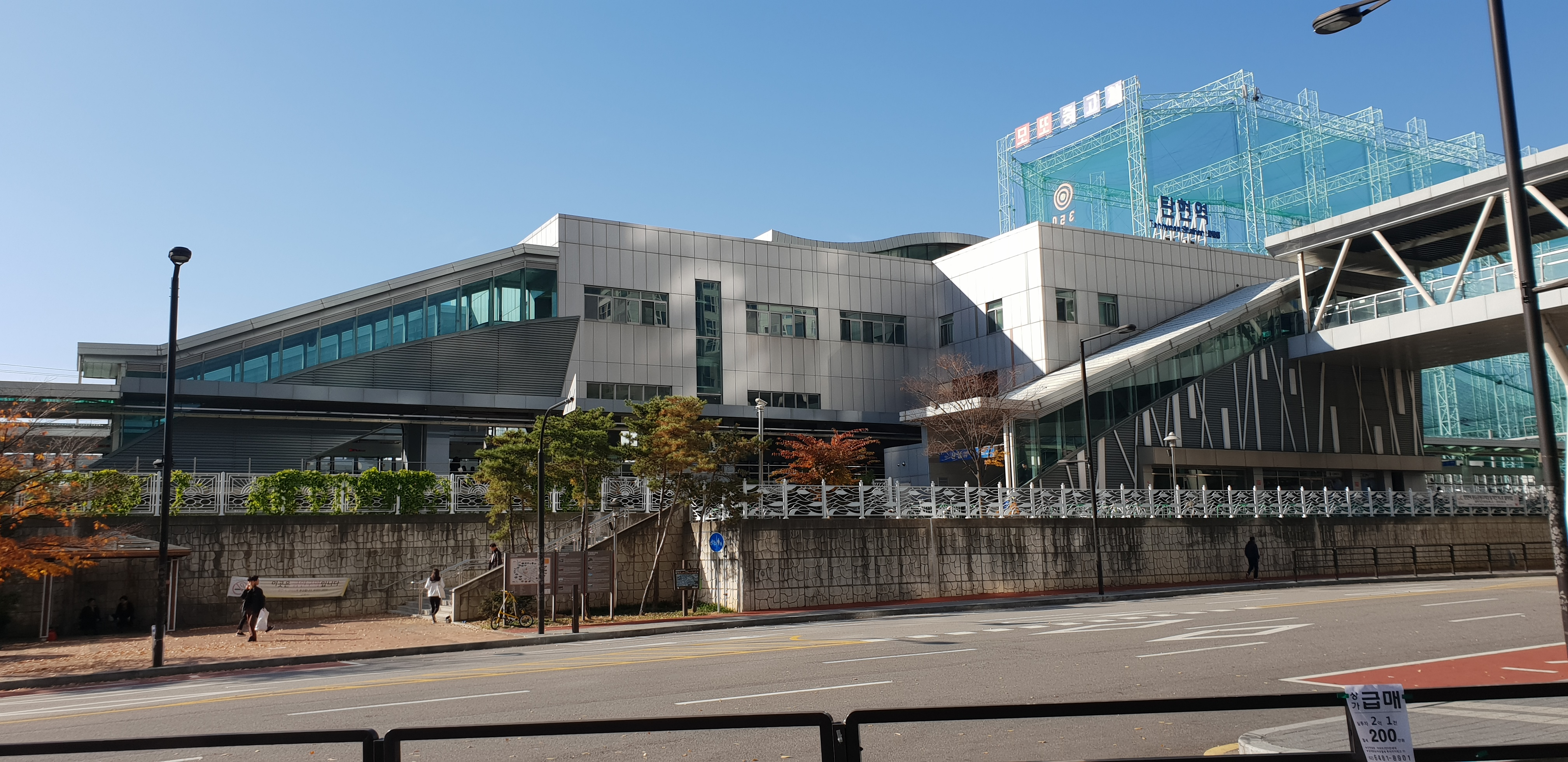 Tanhyeon Station exterior view.